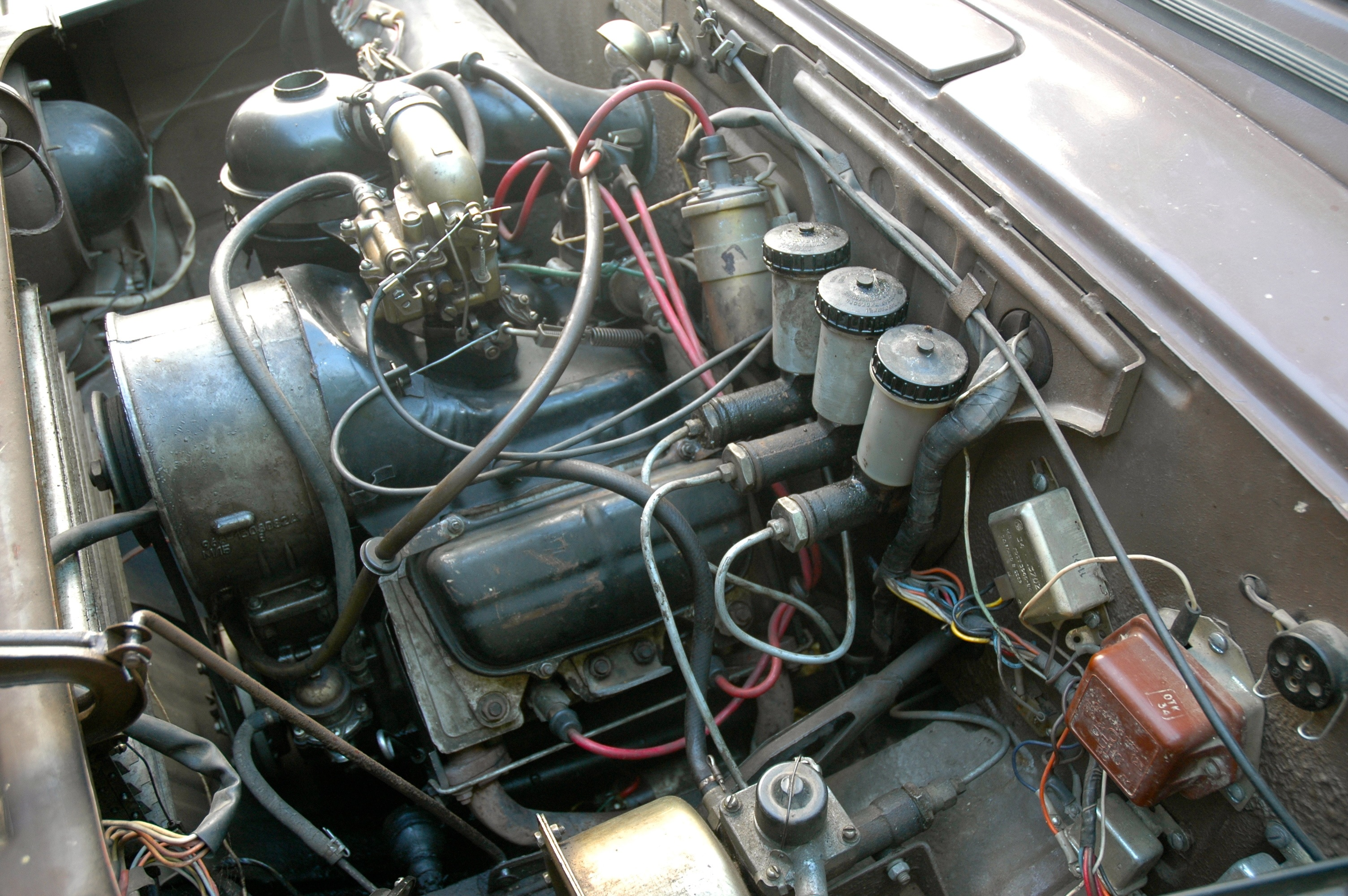 MeMZ-969A engine, mounted in LuAZ off-road vehicle